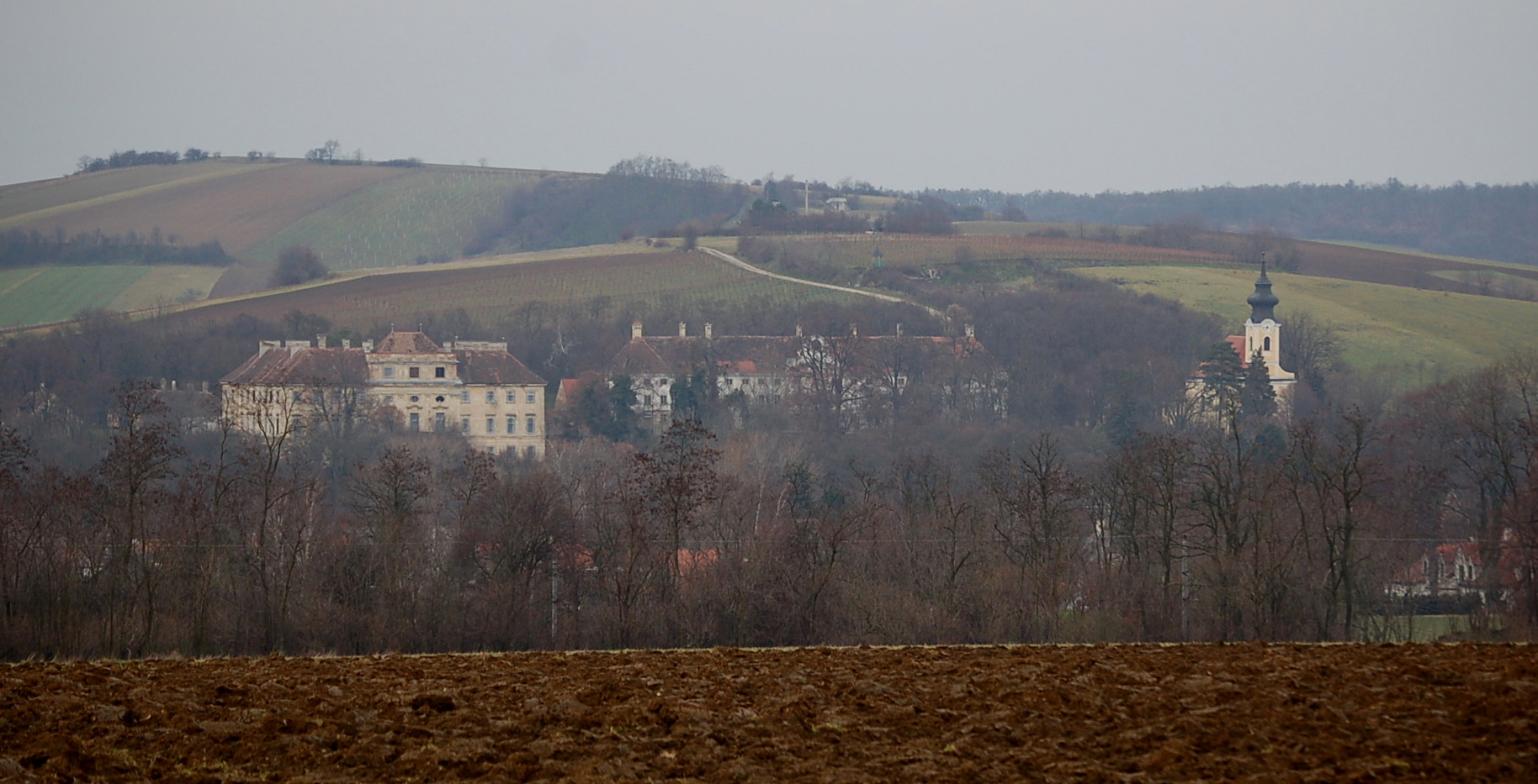 View of Ladendorf from southeast with castle, so called "Office building", and parish church